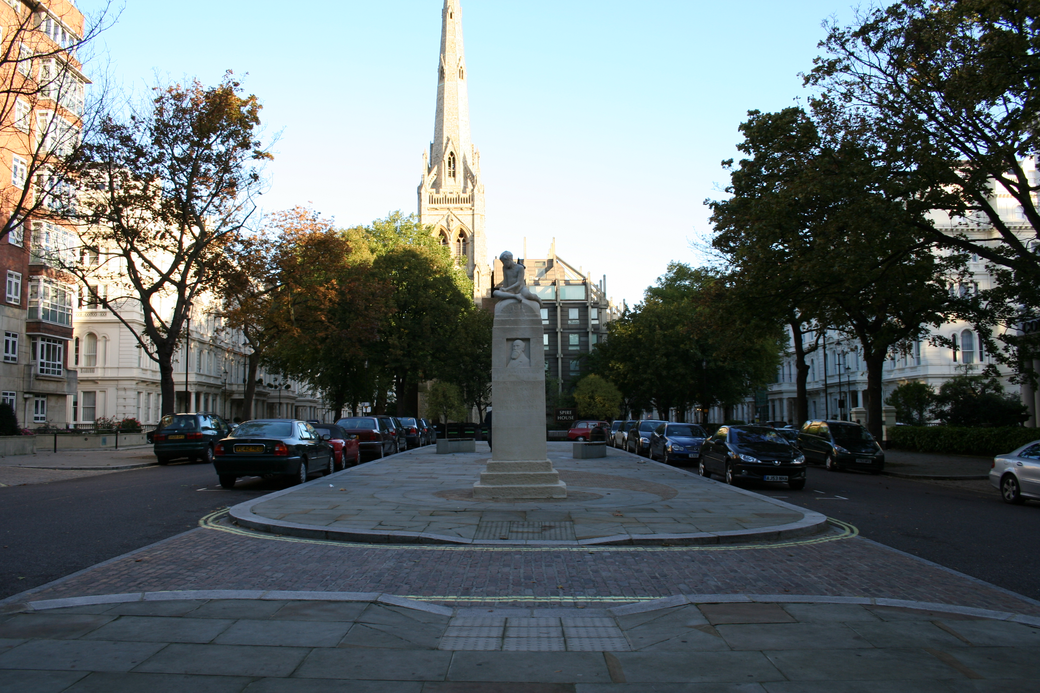 A view of Lancaster Gate in London